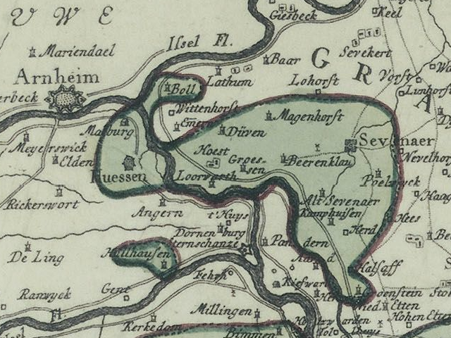 Liemers: part of bigger map, duchy of kleve